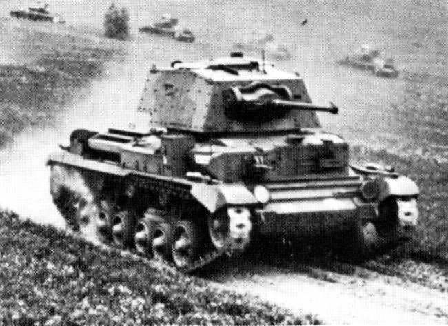 This work created by the United Kingdom Government is in the public domain. This is because it is one of the following: It is a photograph taken prior to 1 June 1957; or It was published prior to 1970; or It is an artistic work other than a photograph or engraving (e.g. a painting) which was created prior to 1970. HMSO has declared that the expiry of Crown Copyrights applies worldwide (ref: HMSO Email Reply)More information. See also Copyright and Crown copyright artistic works.